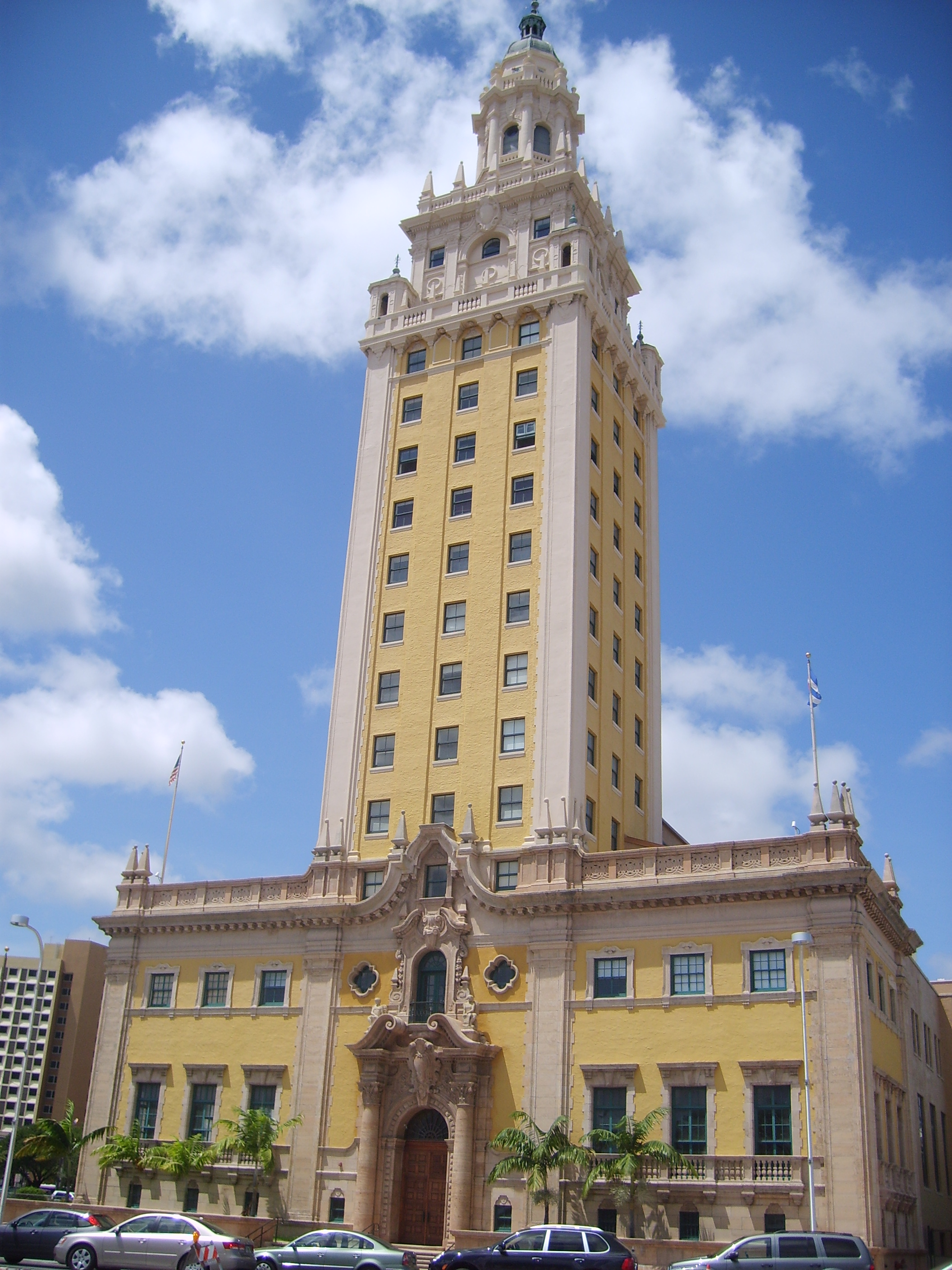 Miami Downtown Freedom Tower